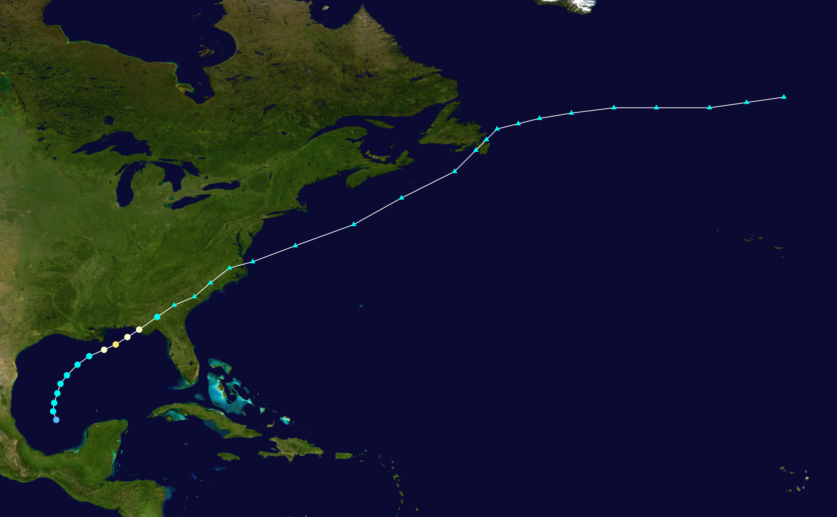 Track map of Hurricane Earl of the 1998 Atlantic hurricane season. The points show the location of the storm at 6-hour intervals. The colour represents the storm's maximum sustained wind speeds as classified in the Saffir–Simpson scale (see below), and the shape of the data points represent the nature of the storm, according to the legend below. Saffir–Simpson scale Tropical depression≤38 mph≤62 km/h Category 3111–129 mph178–208 km/h Tropical storm39–73 mph63–118 km/h Category 4130–156 mph209–251 km/h Category 174–95 mph119–153 km/h Category 5≥157 mph≥252 km/h Category 296–110 mph154–177 km/h Unknown Storm type Tropical cyclone Subtropical cyclone Extratropical cyclone / Remnant low / Tropical disturbance / Monsoon depression